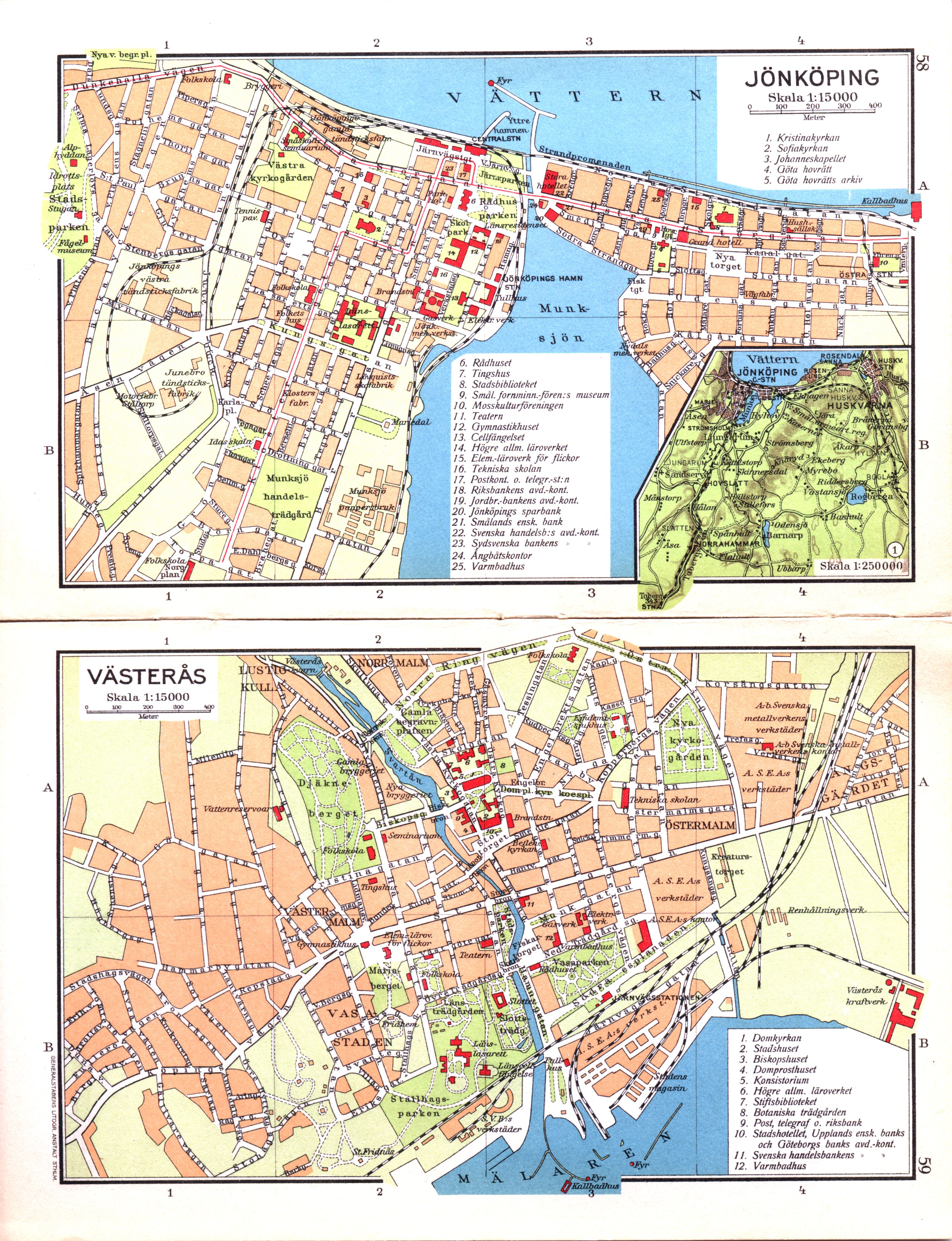 Map of Jönköping, Västerås in Sweden.